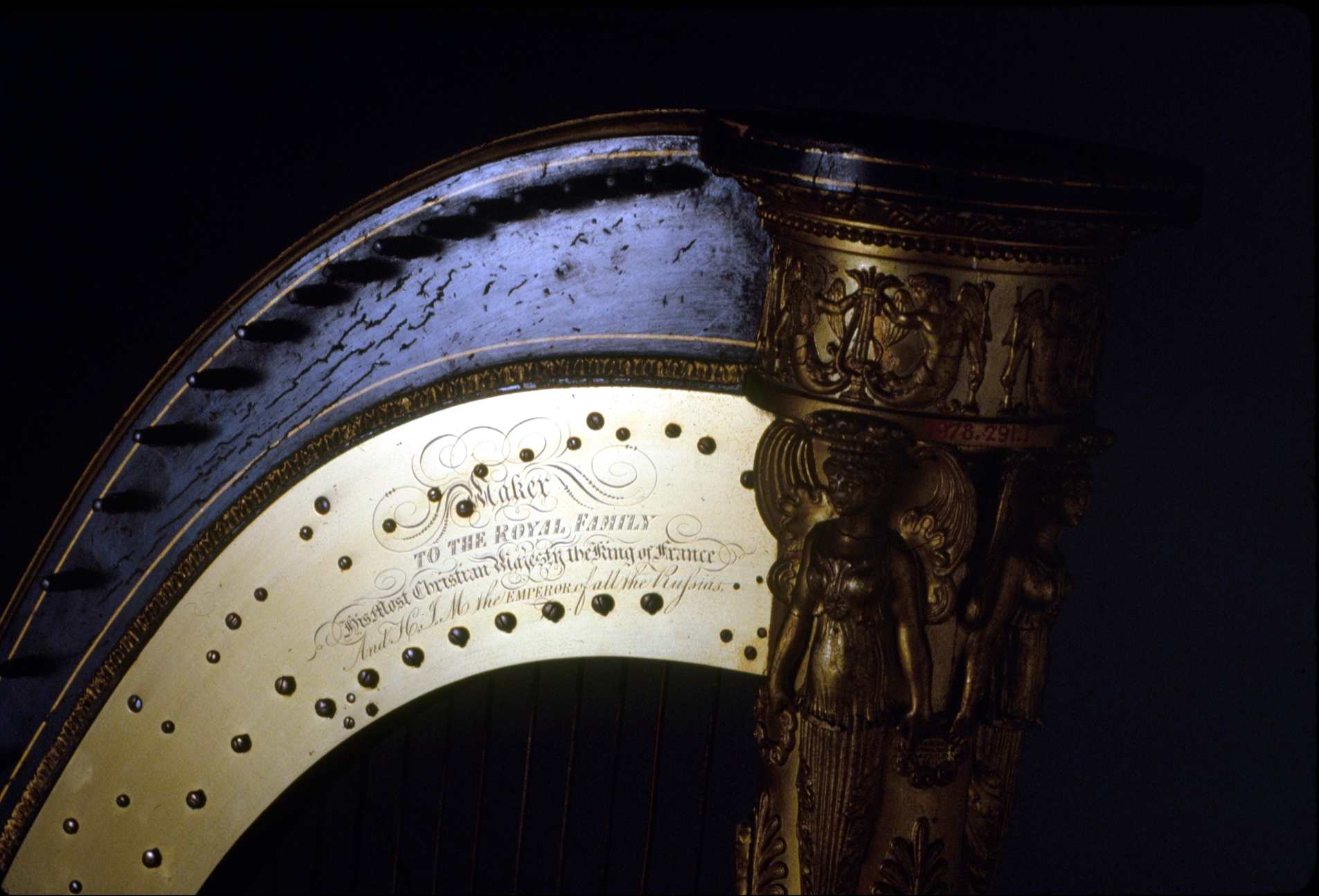 British; Pedal Harp; Chordophone-Harp